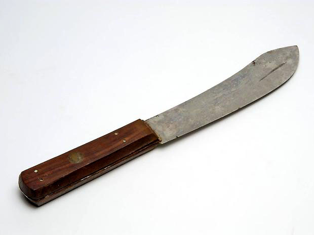 Knife with wooden handle, served as a means of exchange